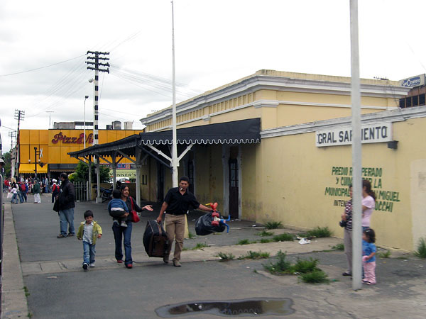 General Sarmiento Train Station